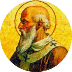 Portait of Pope Leo II in the Basilica of Saint Paul Outside the Walls, Rome